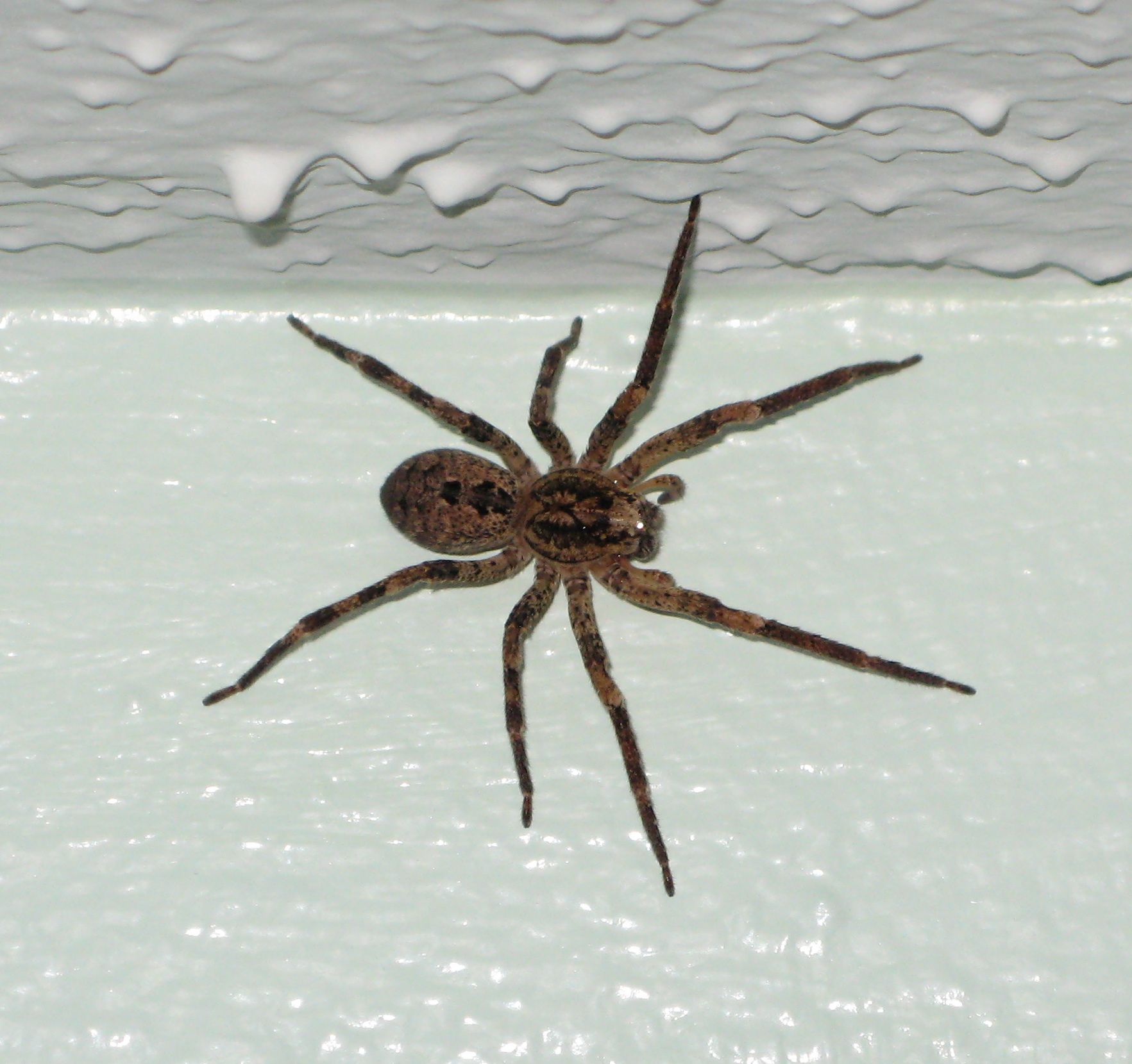 Photograph of Zoropsis Spinimana, confirmed by Cal Academy of Sciences